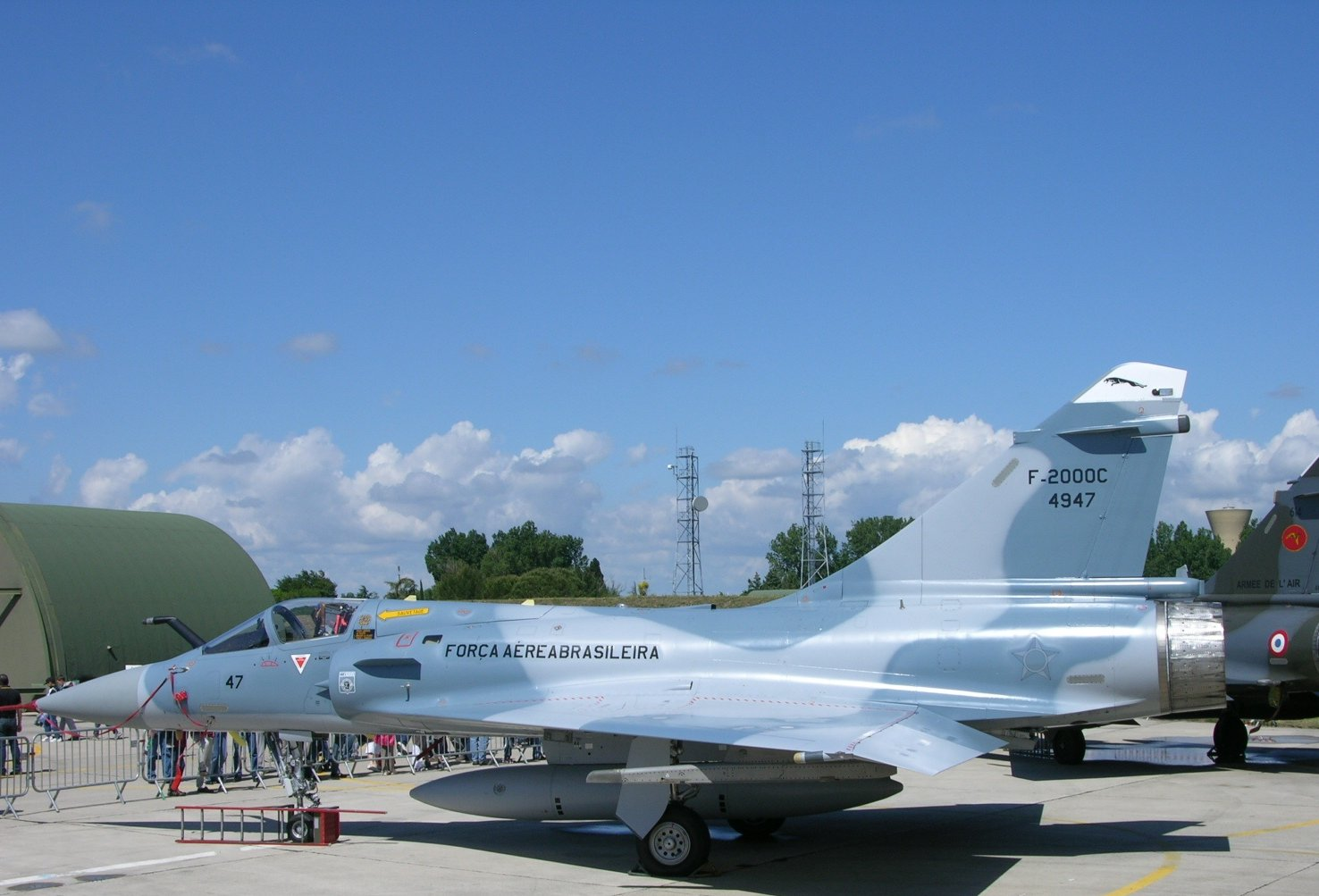 Brazilian Mirage 2000 Orange Air Base open day in May 2008 The French are retiring their Mirage 2000Cs and a number have been sold to Brazil. This one was in the static display and fortunately there was a convenient set of steps to enable me to see over the top of the ubiquitous barriers.